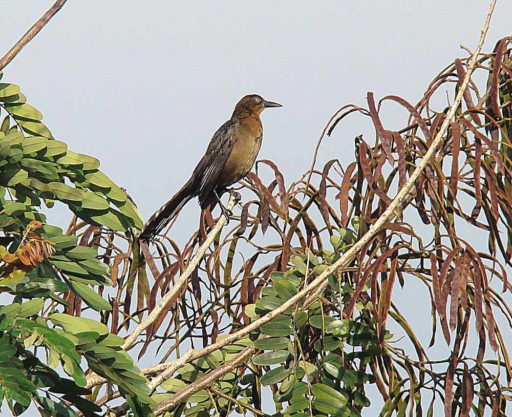 On Solentiname Island in Lake Nicaragua, where it is known as Clarinero or as Zanate de Laguna. In context at